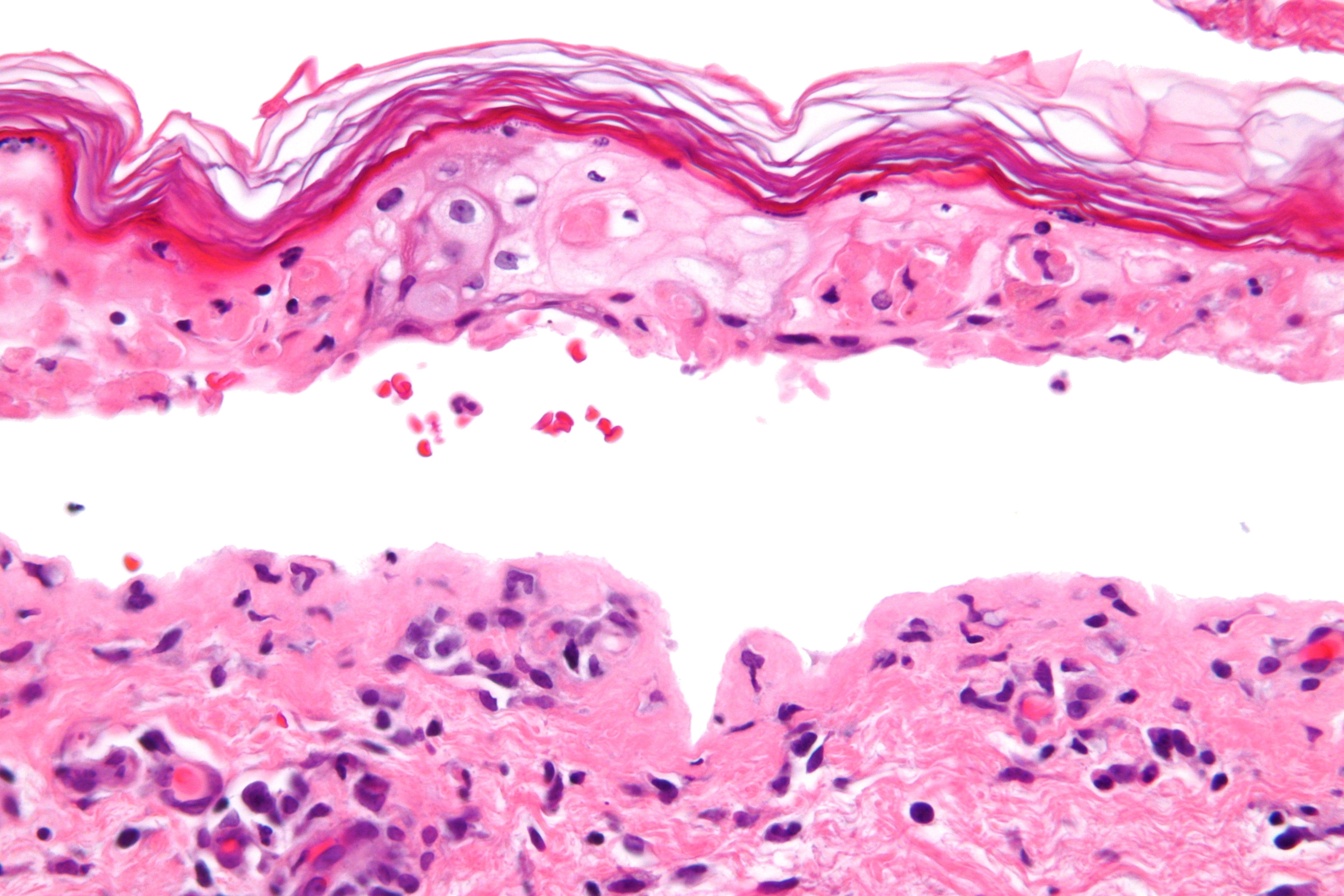 Very high magnification micrograph of confluent epidermal necrosis. Skin biopsy. H&E stain. Confluent epidermal necrosis is seen in the context of erythema multiforme (EM), Stevens-Johnson syndrome (SJS) and toxic epidermal necrolysis (TEN). SJS and TEN are generally considered to be on a spectrum and usually due to medications. EM is histomorphologically indistinguishable from SJS/TEN. It is usually due to an infection. Histomorphologic features: A basket weave-type stratum corneum (indicative of the acuity). Epidermal necrosis. Separation of the epidermis and dermis. Minimal inflammation. Related images Low mag. Intermed. mag. High mag. Very high mag.